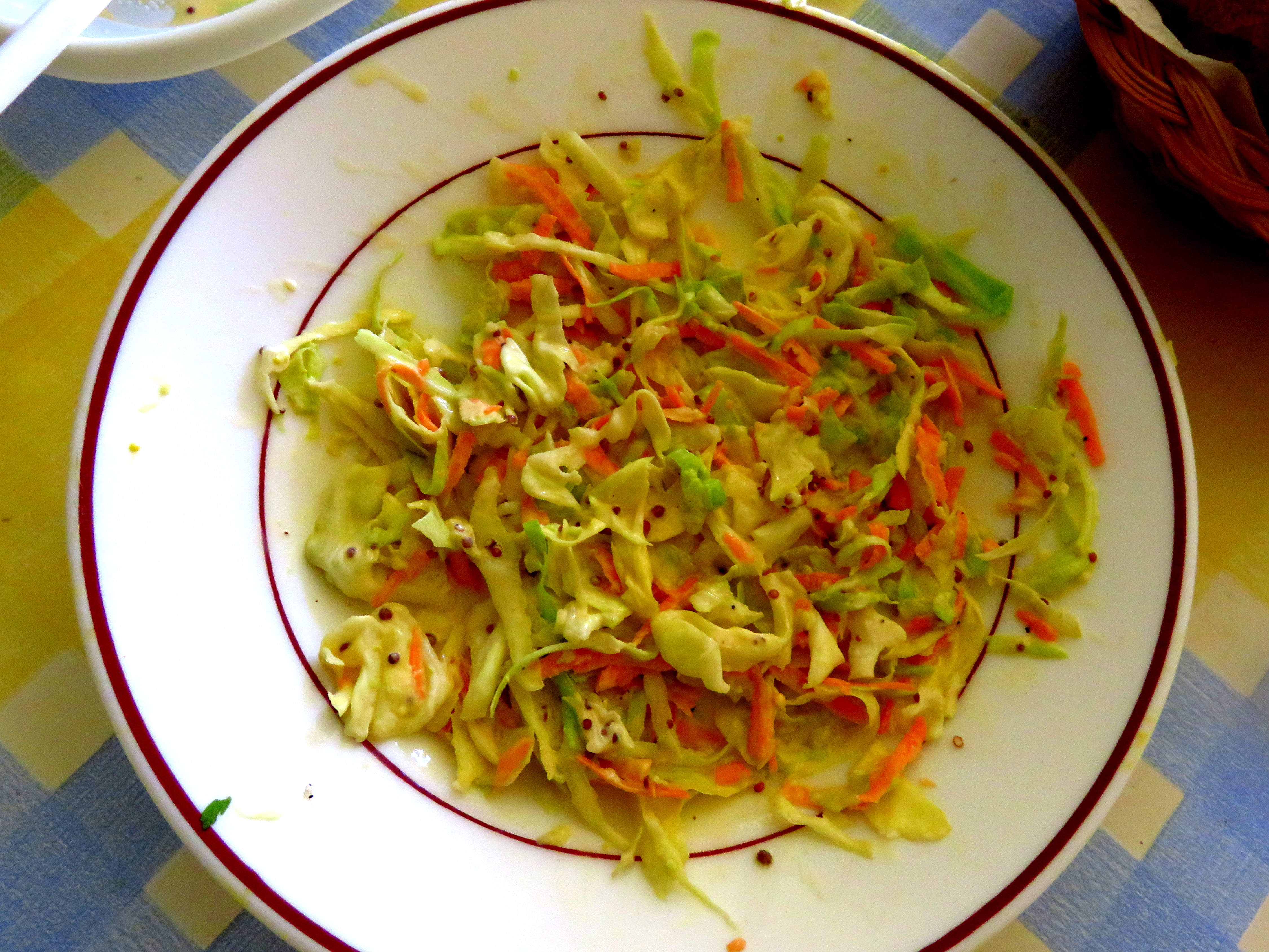 Ensalada de col o ensalada americana